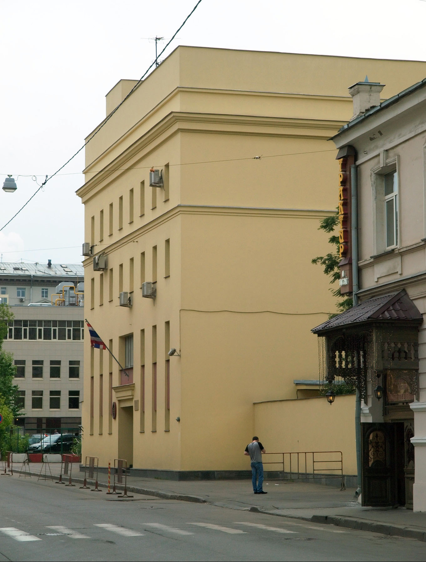 Embassy of Thailand in Moscow - 9, Bolshaya Spasskaya Street.